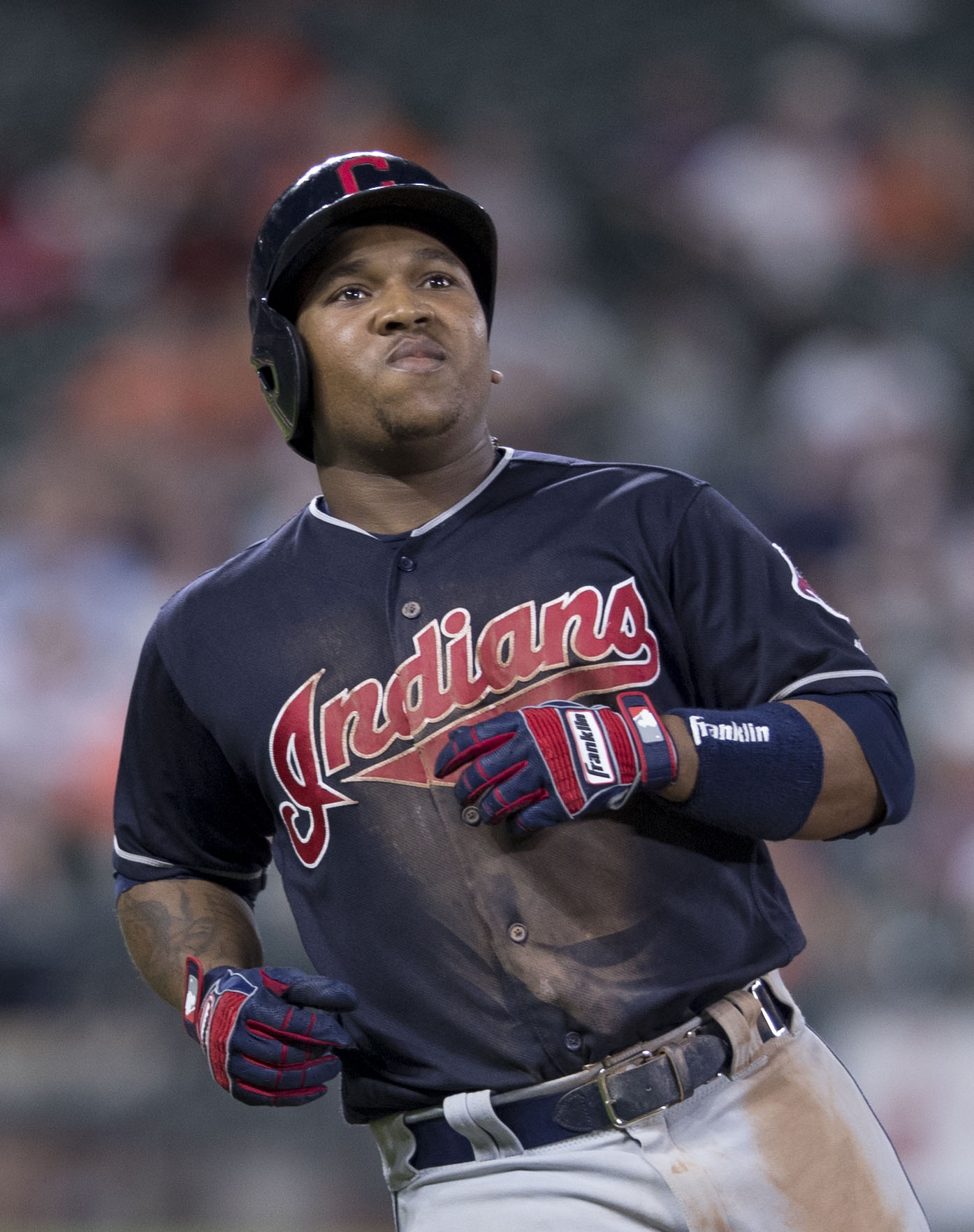 Indians at Orioles 6/20/17